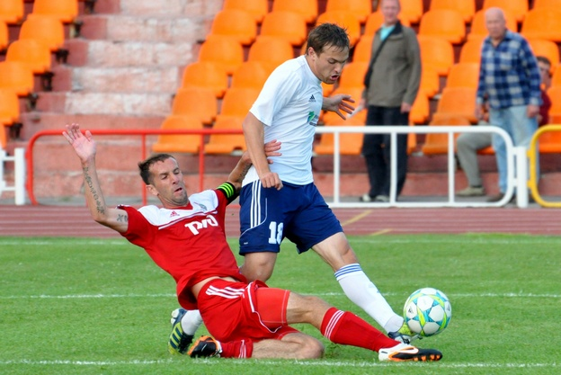 Dmitry Sokolov player FC Fakel Voronezh